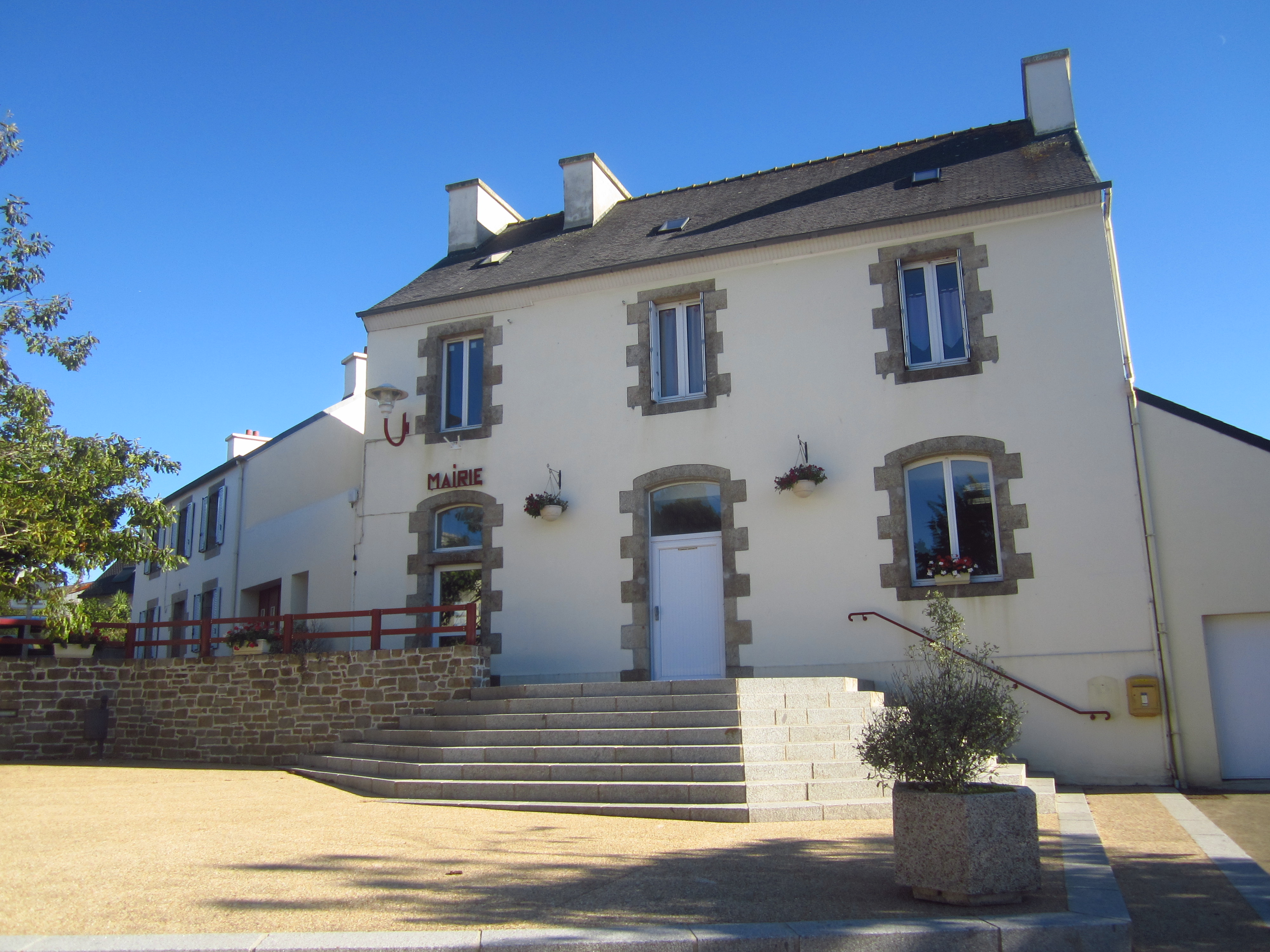 Town hall of Lanneufret, Finistère